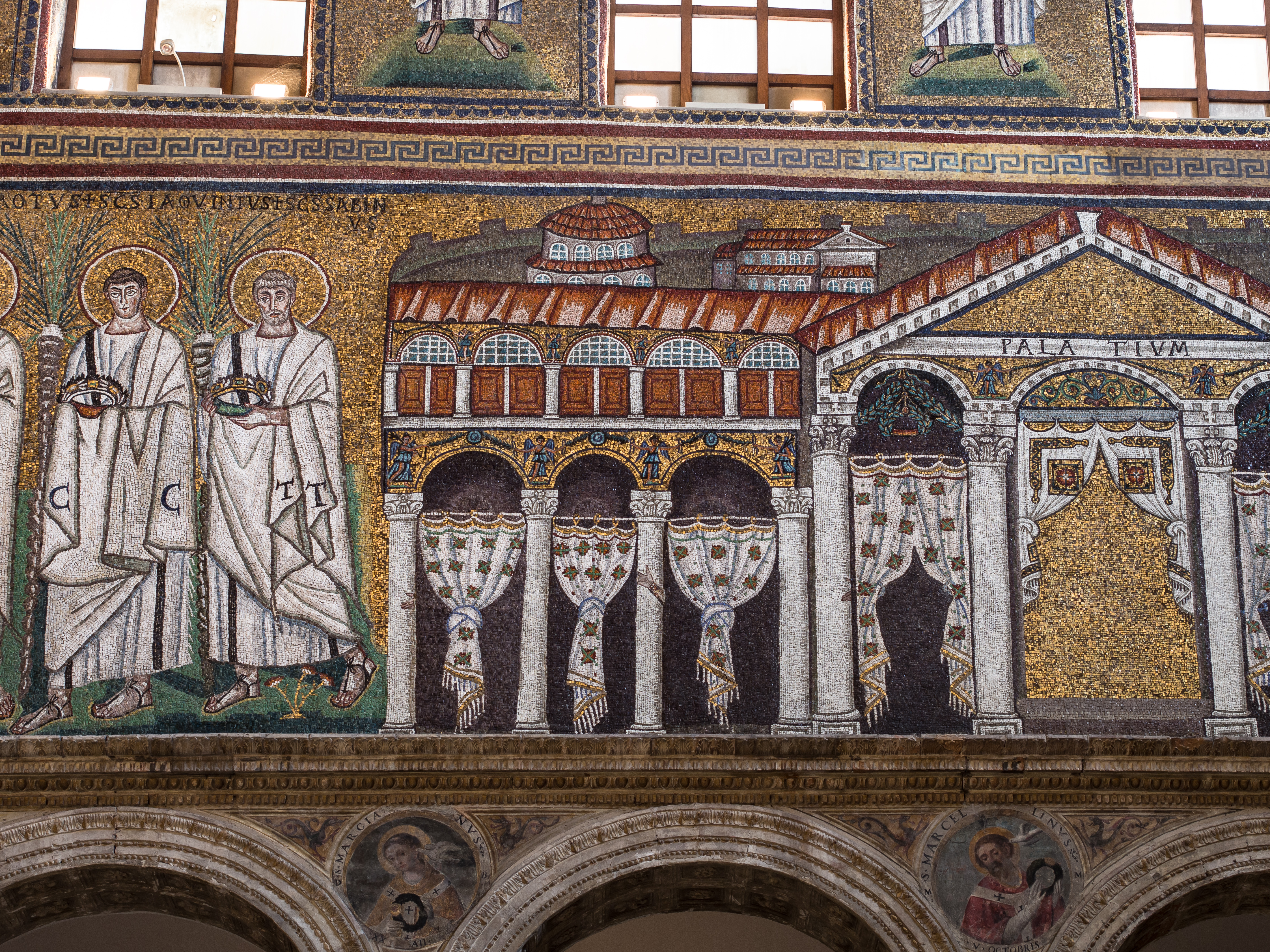 Ravenna - Basilica of Sant'Apollinare Nuovo - mosaics